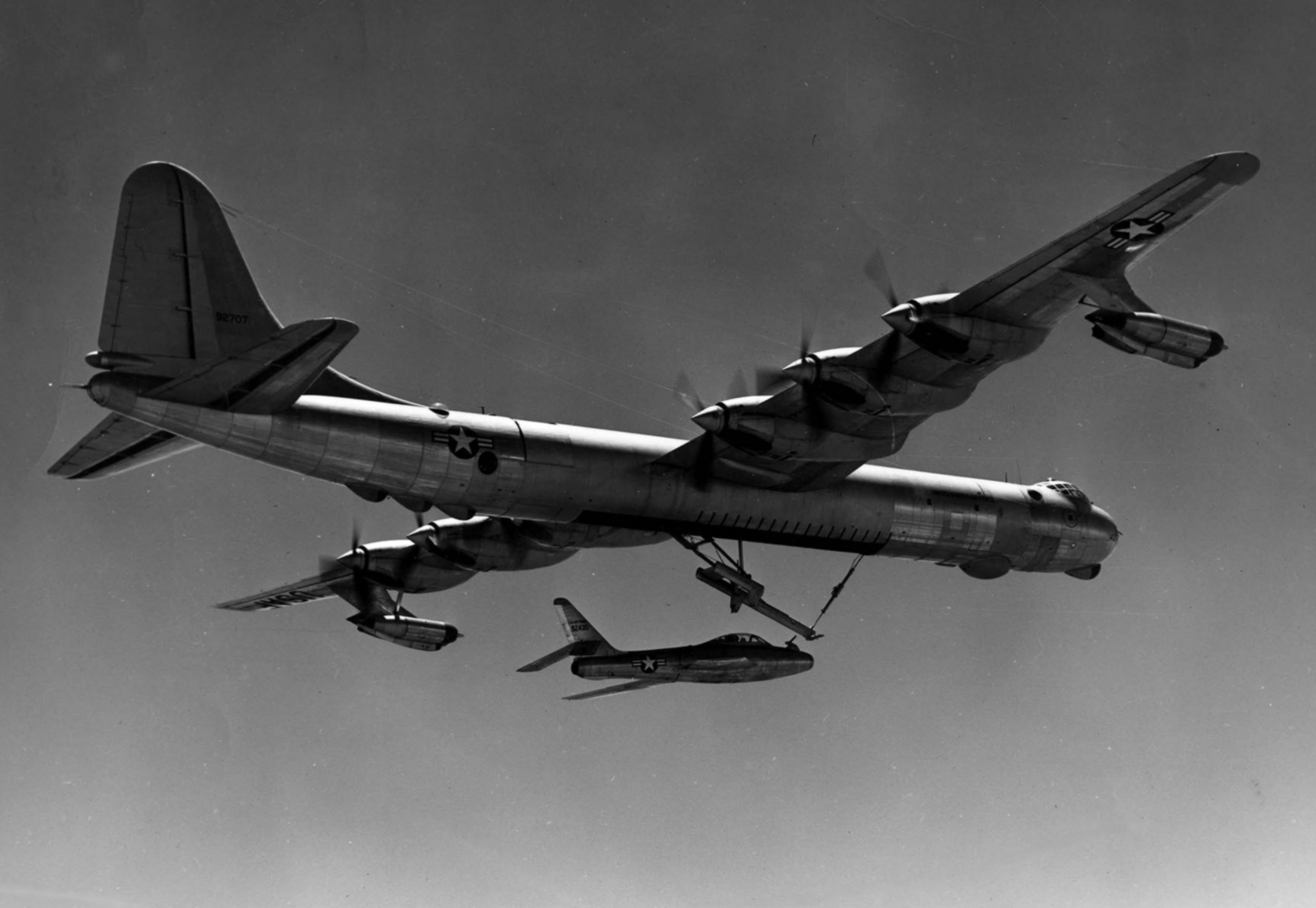 The U.S. Air Force FICON (Fighter Conveyer) project: YRB-36 and YF-84F in launch position.